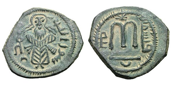 Arab-Byzantine Coinage . Iliya (Jerusalem), under Umayyad Kalif Abd al-Malik Obv: Standing figure (Prophet Muhammad accoring to Foss) wearing robe with herringbone pattern. To left, 'muhammad'. To right, 'rasul allah'. Rx: Large M with 'iliya' (Jersualem) to left and 'filastin' (Arabic name of Palestine) to right. Foss, Catalogue of Arab-Byzantine Coins in the Dumbarton Oaks Collection 92. Goodwin, Arab Byzantine Coinage, Khalili Collection, p. 47, 63. Walker, Catalogue of the Muhammadan Coins in the British Museum, p. 22, 73. Mint State.